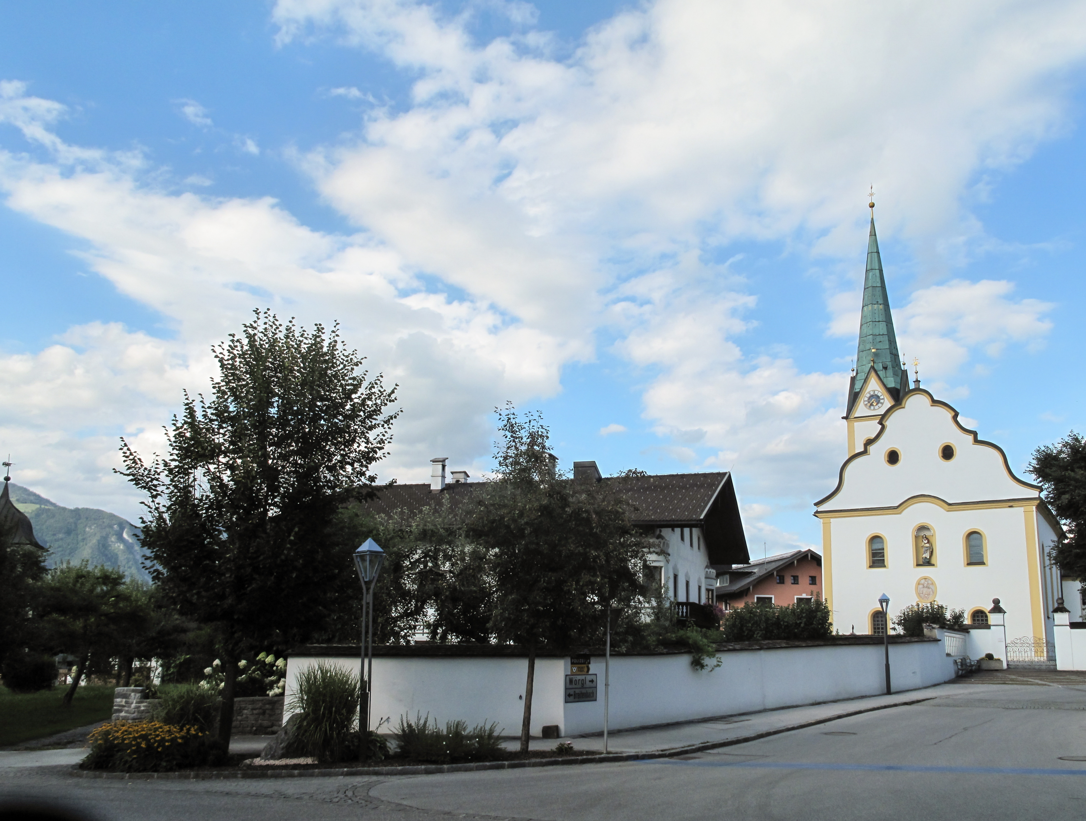 Kundl, Roman Catholic Parish church Assumption of Mary